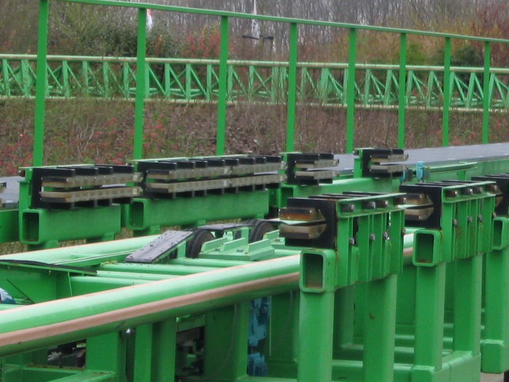 Brakes of Rollercoaster Goliath at Walibi World